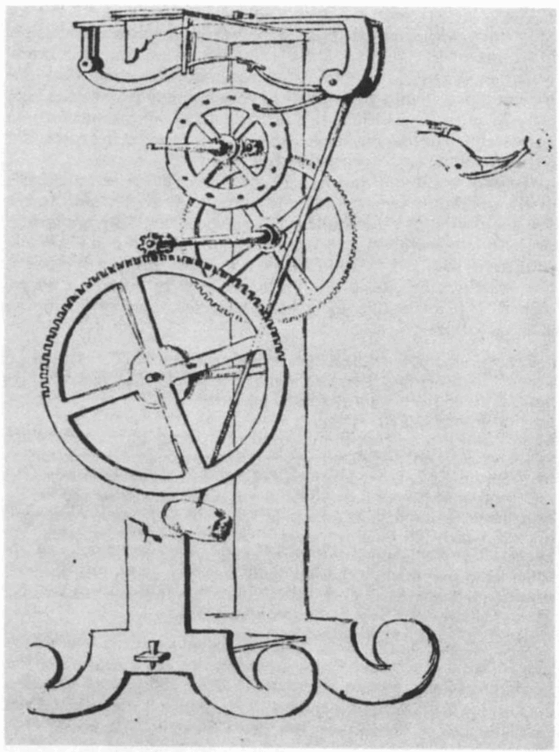 Drawing of pendulum clock designed by Galileo Galilei around 1641, drawn by Vincenzo Viviani in 1659. Part of the front supporting plate is removed by the artist to show the wheelwork. Probably the first design for a pendulum clock although it didn't have a face. It was partly constructed by Galileo's son, who died before he could finish it. Caption text: "Viviani's drawing of Galileo's design for use of pendulum to measure time, dictated by the blind Galileo to his son in 1641. Opere di Galileo, 19:656. Photo by Univ. of Toronto photographic services." For more information see Al Van Helden (1995), Pendulum Clock, The Galileo Project. Alterations to image: converted from JPG to 32 greyscale PNG